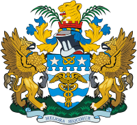 Coat of arms of the city of Brisbane, in Australia